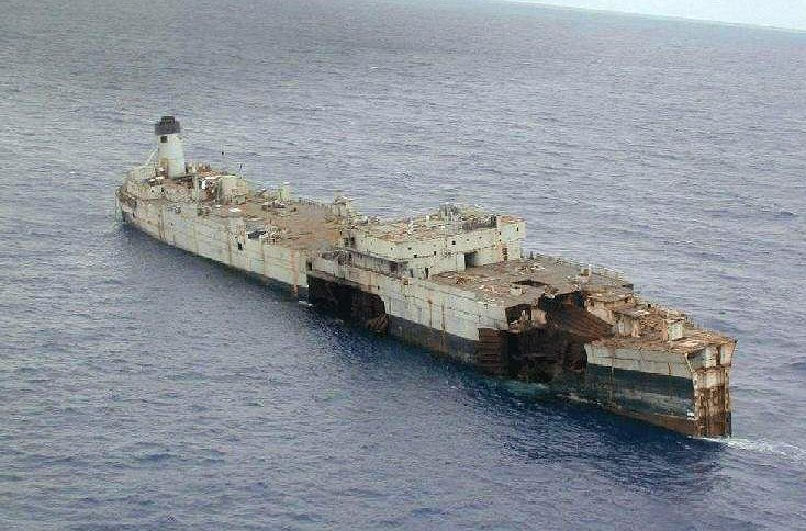 The decommissioned U.S. Navy fleet oiler USS Ashtabula (AO-51) as a taget ship off California (USA), on 14 October 2000. She had been sold for scrapping in 1995. The shipbreaker, however, entered into default and Ashtabula, approximately 20% scrapped and missing her forward bow, part of the main deck forward, most of her forward superstructure and all masts and kingposts, was returned to the U.S. Navy on 27 September 1999. In October 2000, she was finally sunk as a target ship. Ashtabula was subjected to eight RGM-84 Harpoon missiles, two RIM-66 Standard SAMs fired in the surface-to-surface mode, three helicopter-launched Sea Skua missiles, four Mk82 227 kg bombs, and nearly one hundred rounds of 76 mm 100 mm, and 127 mm gunfire from an armada consisting of one French, three British and three United States warships. Two Harpoon missiles and one Sea Skua missile found their marks, but Ashtabula remained afloat. She was ultimately sunk the next day after being fitted with demolition charges.